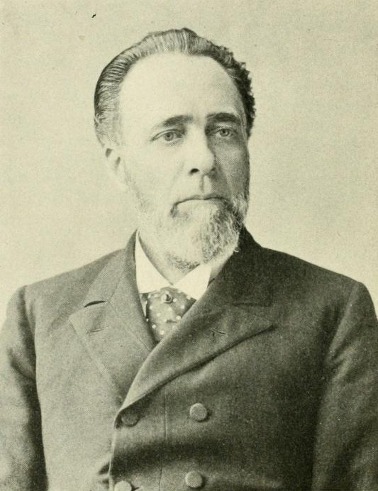 Seantor Henry M. Teller